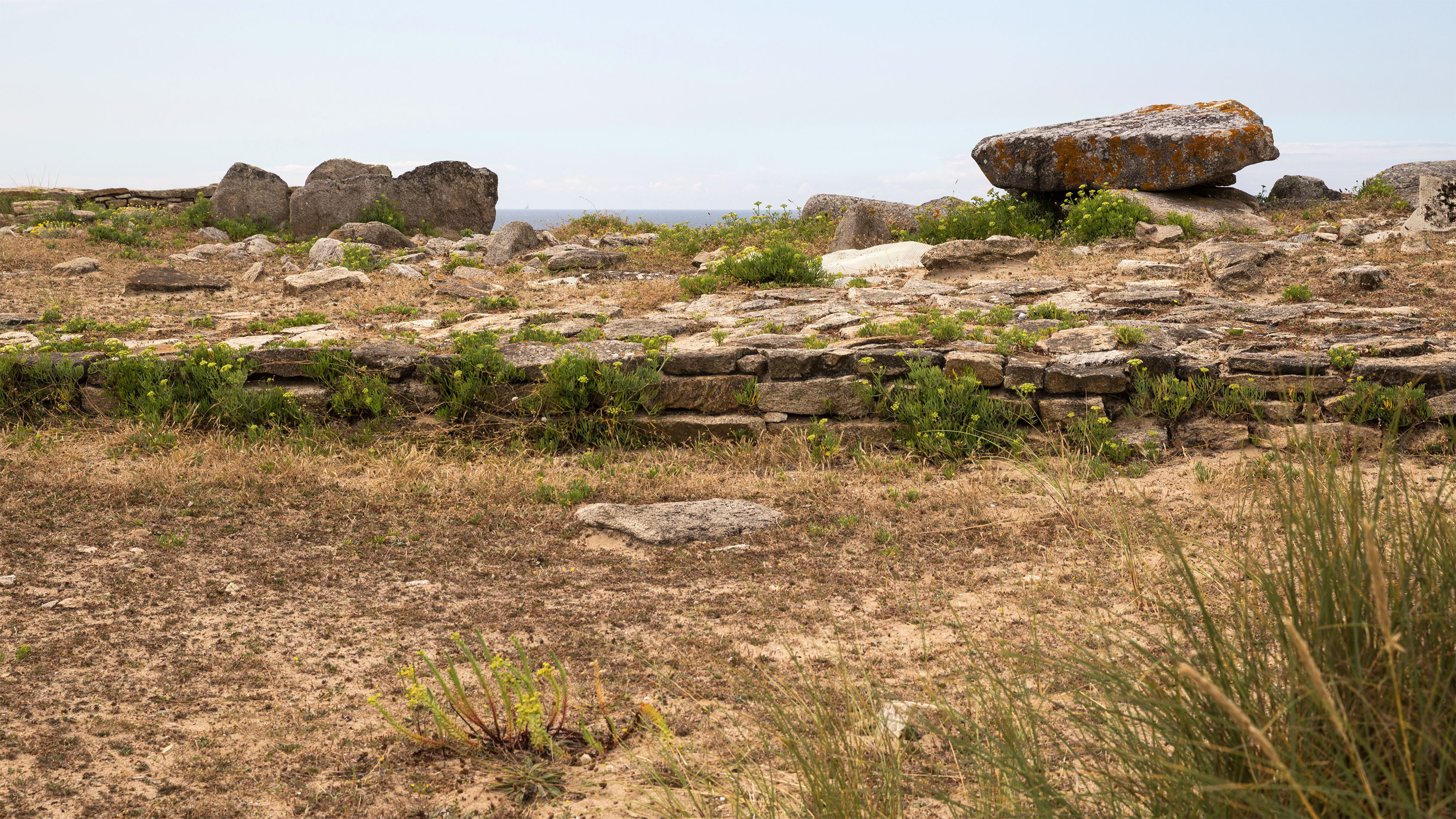 Dolmens of Port-Blanc (Porz Guen) in Brittany